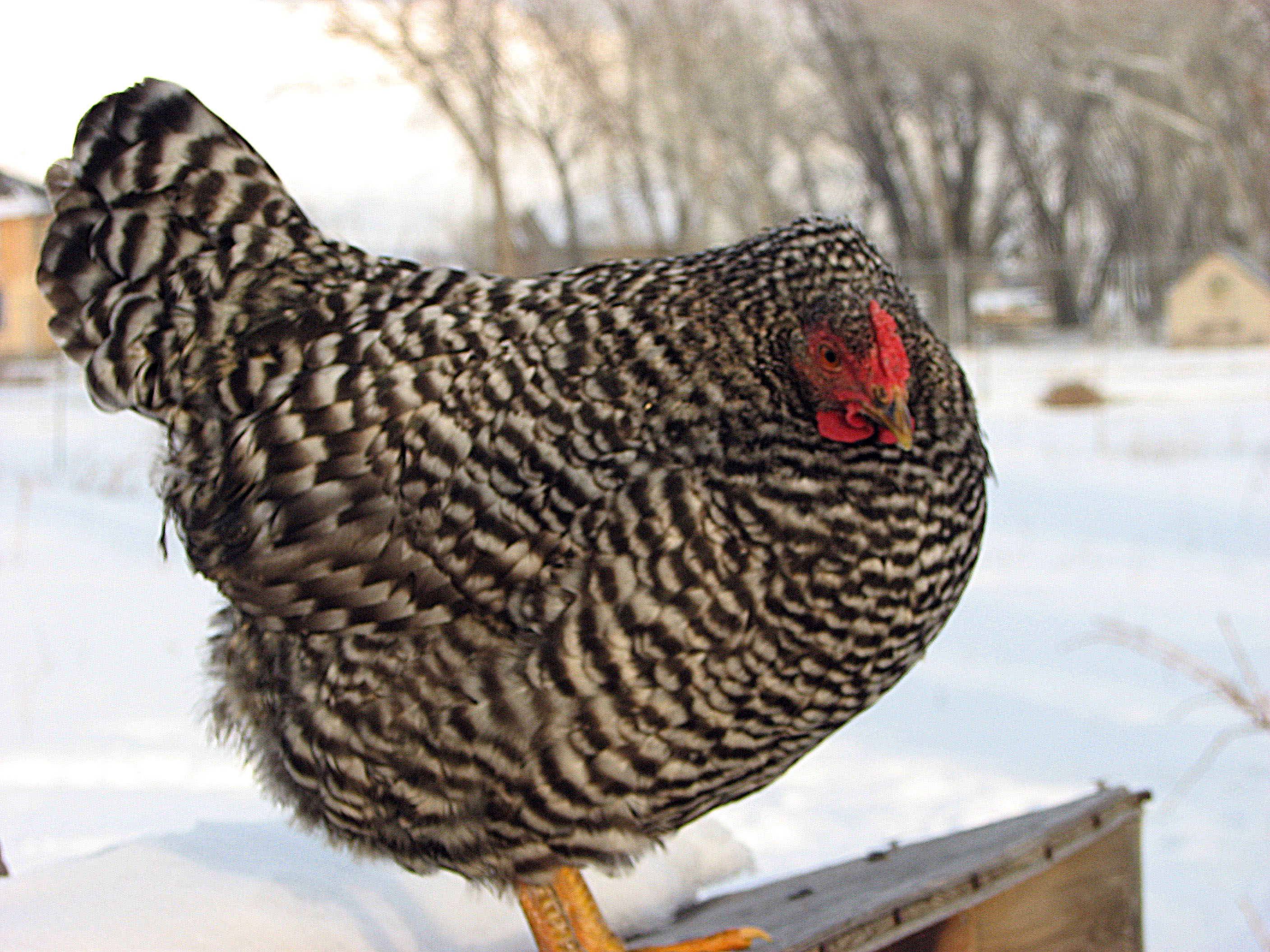 Sweetie, a Dominique pullet in a small flock residing in Northern Utah, USA, was hatched in July 2007 and has a particularly calm and sweet disposition. She appears to enjoy being picked up and held by people; often following a person around the yard, clucking softly until picked up. While most Dominiques are not as human-friendly as Sweetie, the breed does tend to be very calm and personable. Photographer: Ron Proctor Photograph date: 19 January 2008. You are welcome to use this work in accordance with the Creative Commons Attribution-Share Alike License.